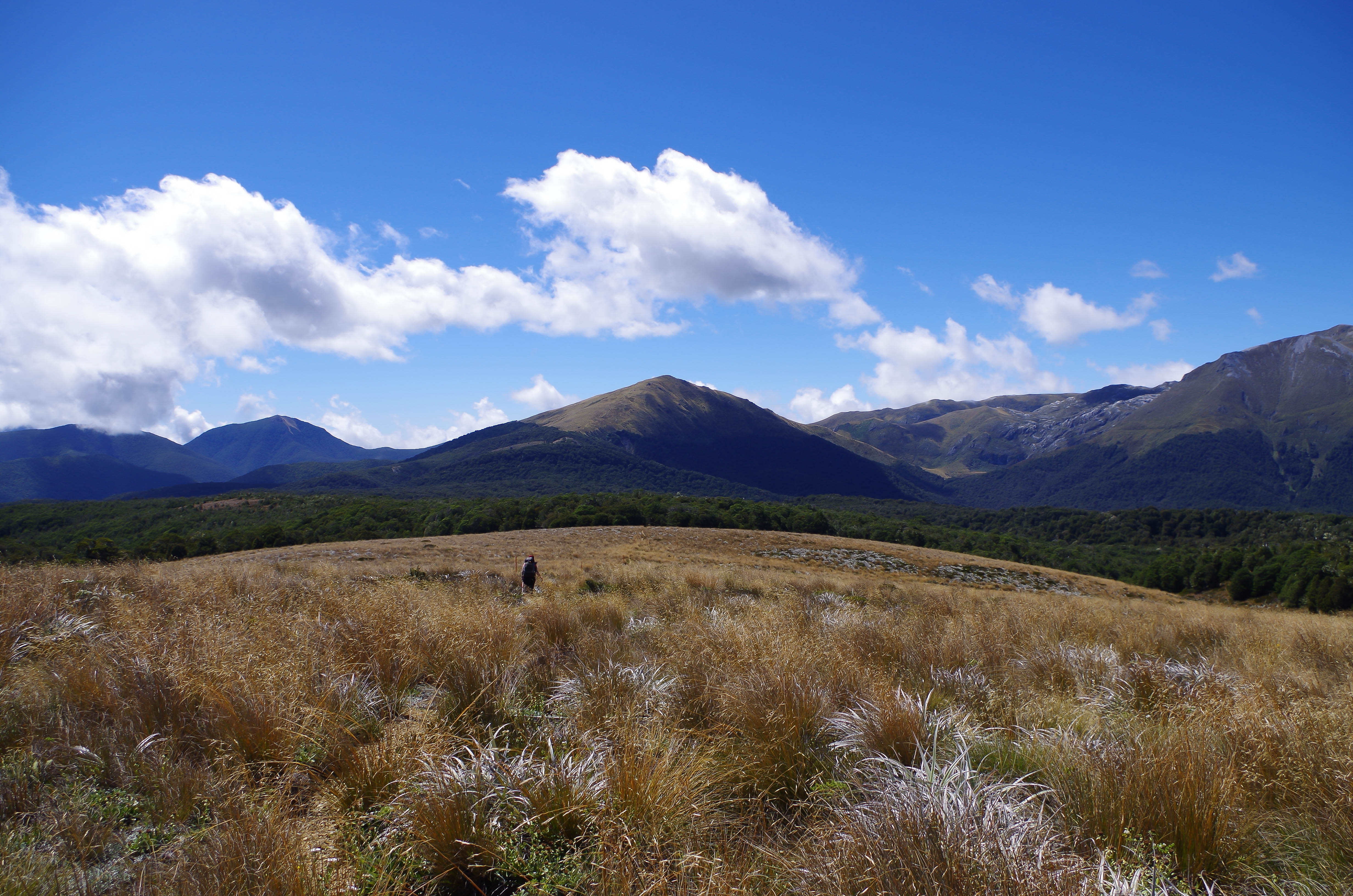 Gordons Pyramid seen from the fabled Grass Tablelands above Salisbury Hut.